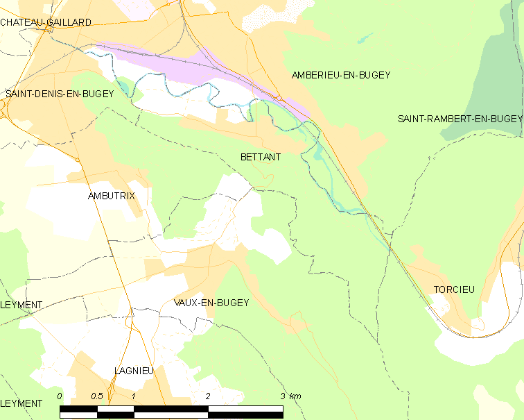 Map of French commune: Bettant Map commune FR insee code 01041.png